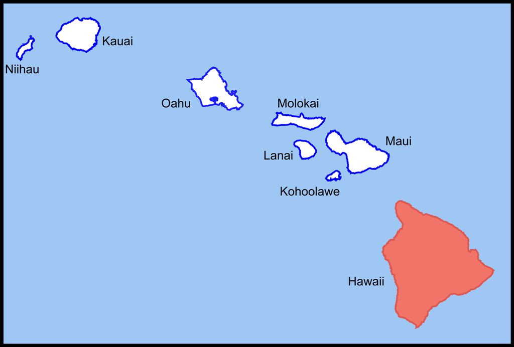 Map of the Hawaiian Islands, highlighting the location of the Big island of Hawaiʻi.